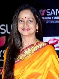 Zarina Wahab grace Stardust Awards 2016